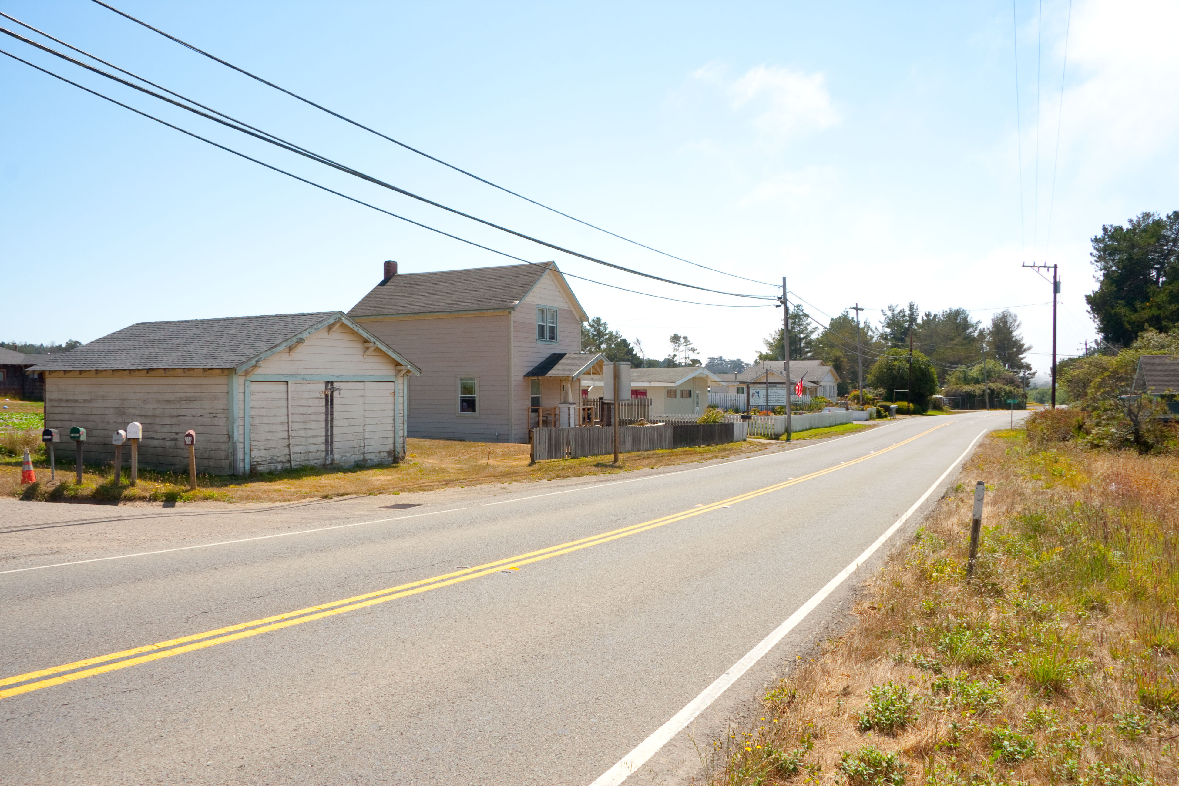 Cleone, California. The road in the foreground is California State Route 1, looking southward.